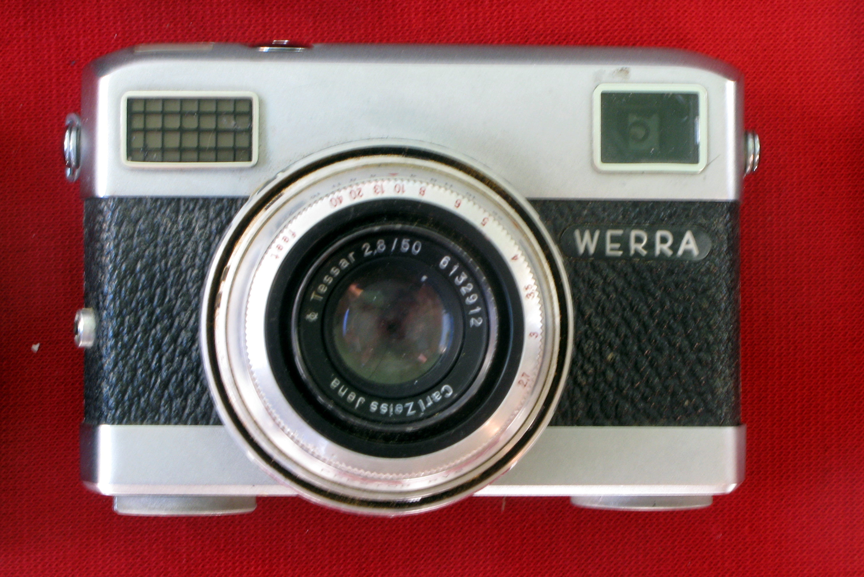 Carl Zeiss Werra